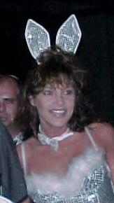 Pornographic actress and director Bionca taken around November 1999.